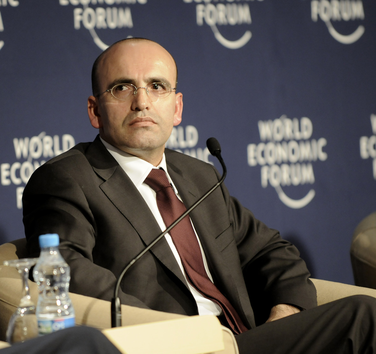 Mehmet Şimşek, Turkish politician, at the World Economic Forum on Europe and Central Asia in Istanbul, Turkey.